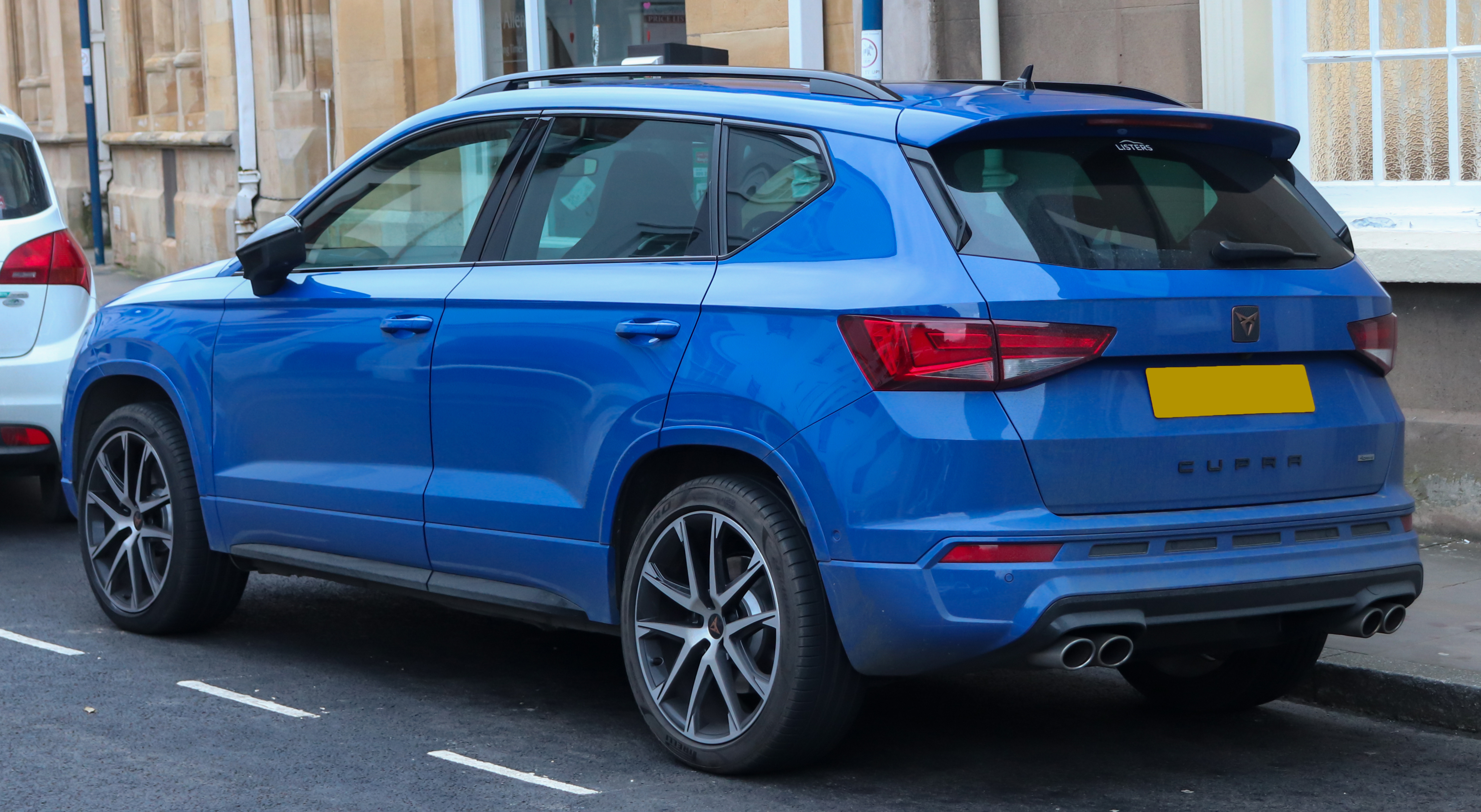 2019 SEAT Ateca Cupra 300 C&S 4Drive 2.0 Rear Taken in Warwick